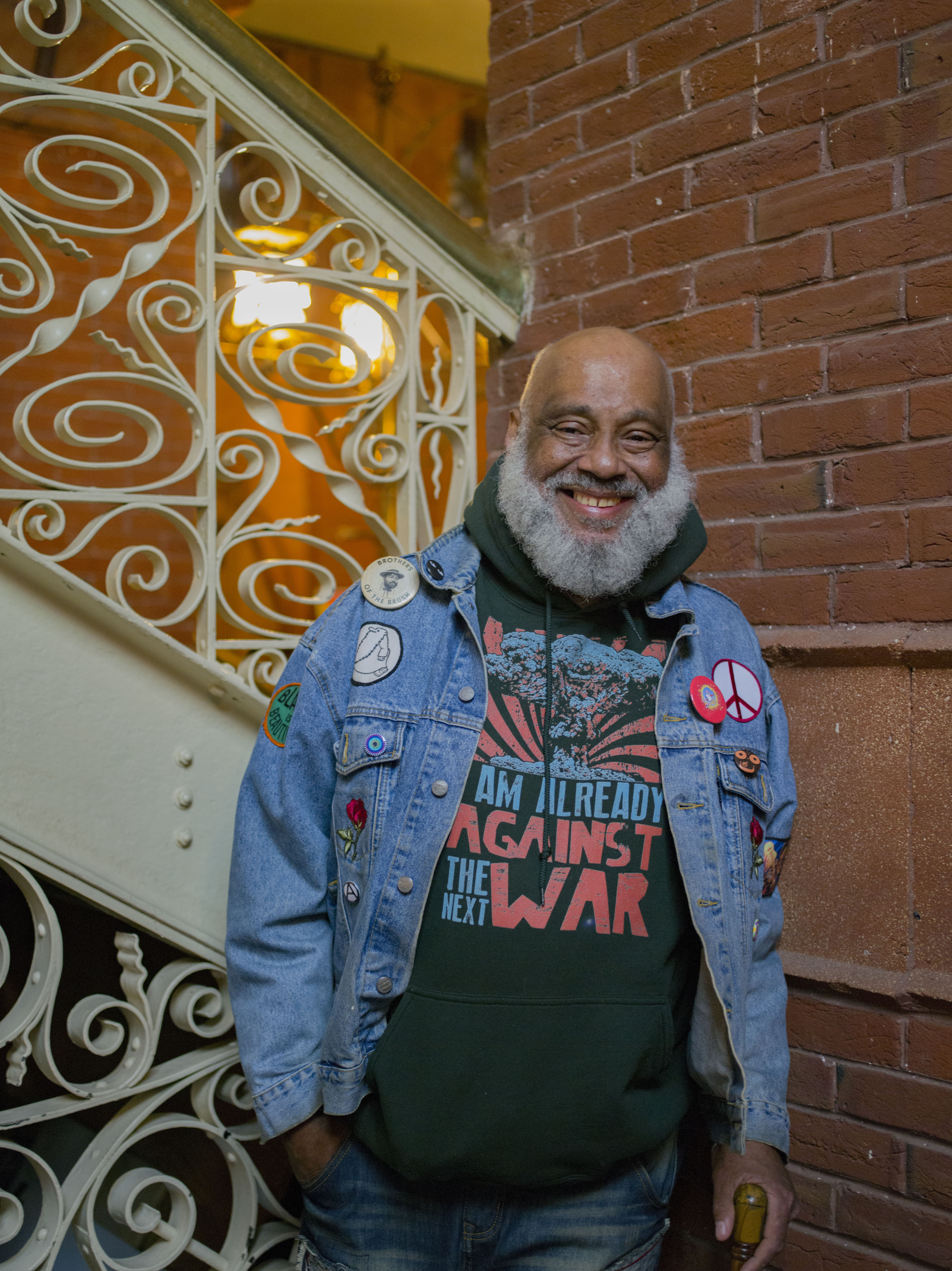 Artist Danny Simmons, photo by Mary Osunlane. Wikipedia editathon at Fisher Fine Art Library at UPenn with Black Lunch Table. All photos taken by Mary Osunlane for open license use with the Black Lunch Table project.